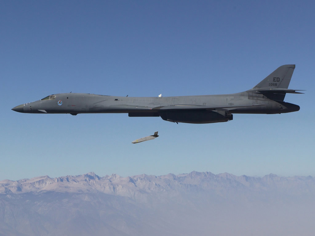 A Long Range Anti-Ship Missile (LRASM) launches from an Air Force B-1B Lancer during flight testing in August 2013. DARPA designed the free-flight transition test (FFTT) demonstration to verify the prototype's flight characteristics and assess subsystem and sensor performance. Designed to launch from both ships and planes such as the B-1 bomber, the test vehicle detected, engaged and hit an unmanned 260-foot Mobile Ship Target (MST) with an inert warhead (DARPA photo).